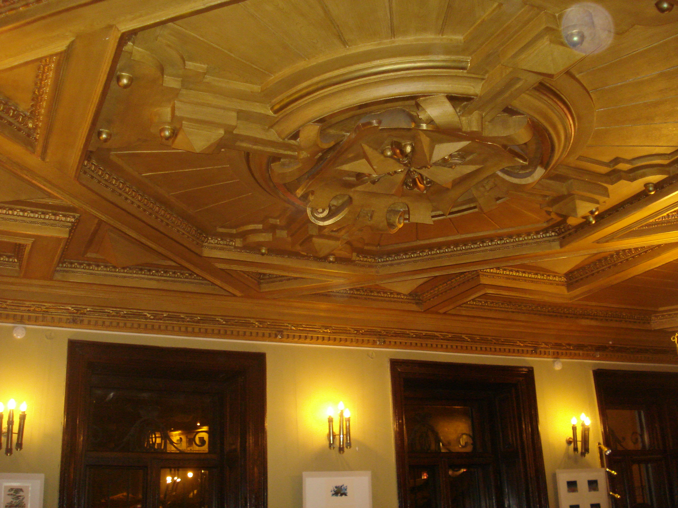 Сeiling in the Palace of the Lithuanian Writer's Union. Vilnius